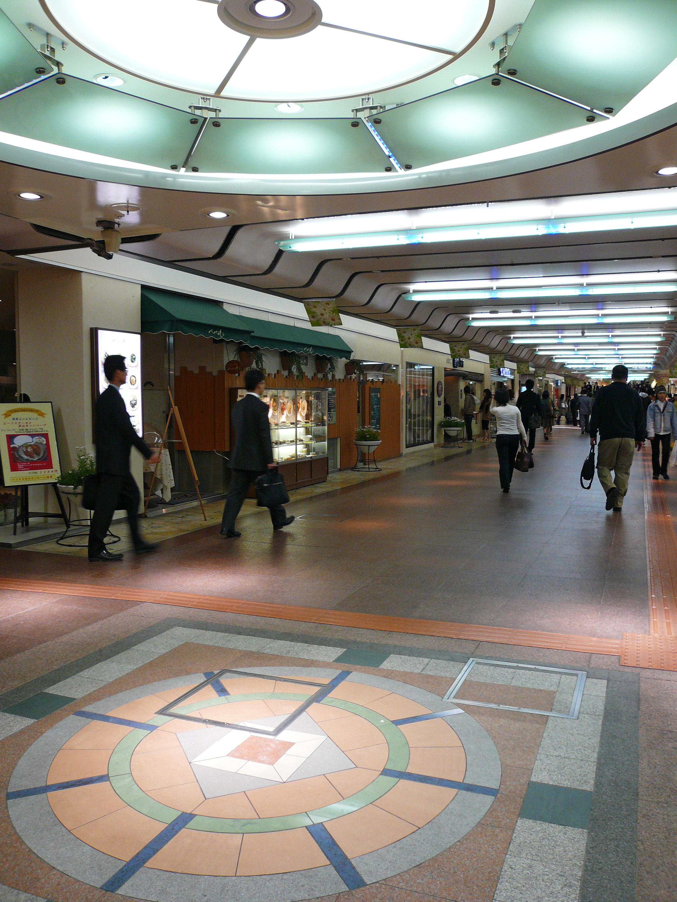 Underground town "Sanchika" in Kobe, Hyogo, Japan